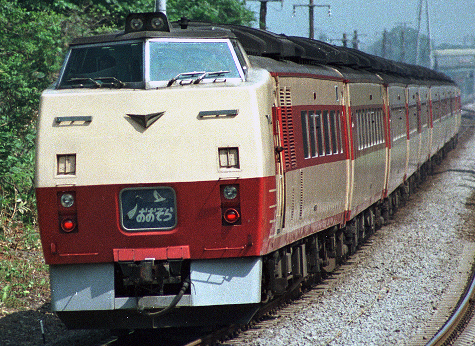 JNR Kiha 183 series DMU for Limited Express Ozora, near Onuma Station on Hakodate Main Line